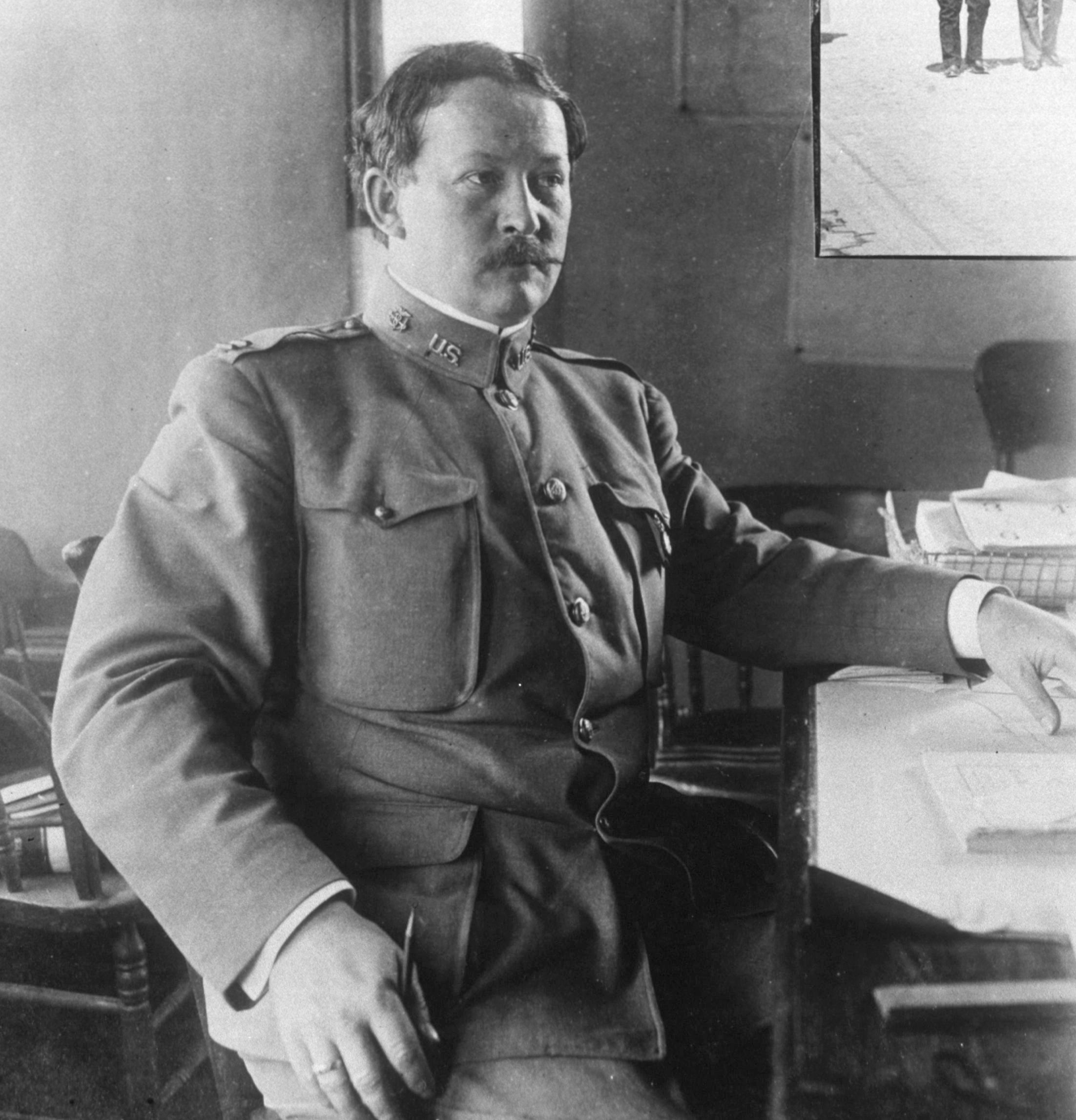 Rupert Blue (30 May 1868 – 12 April 1948), Surgeon General of the United States